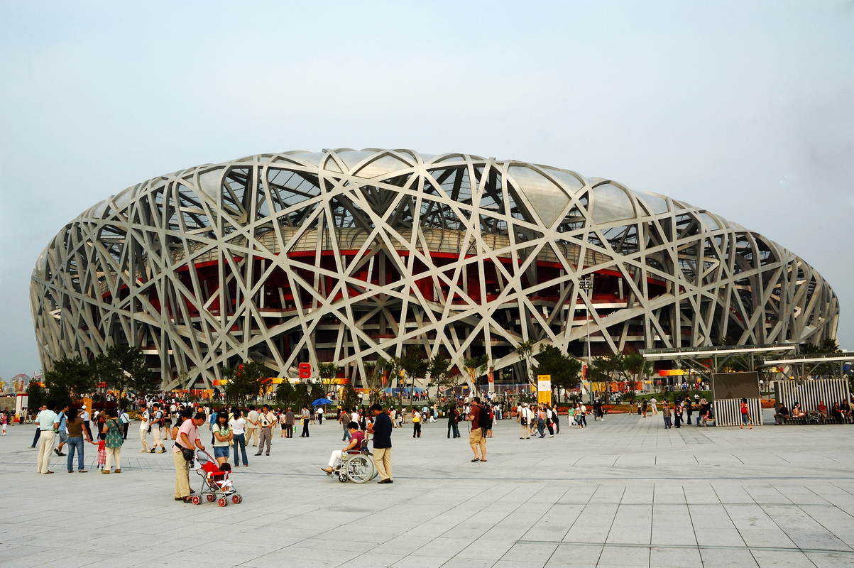 Beijing National Stadium 2008 Summer Paralympics